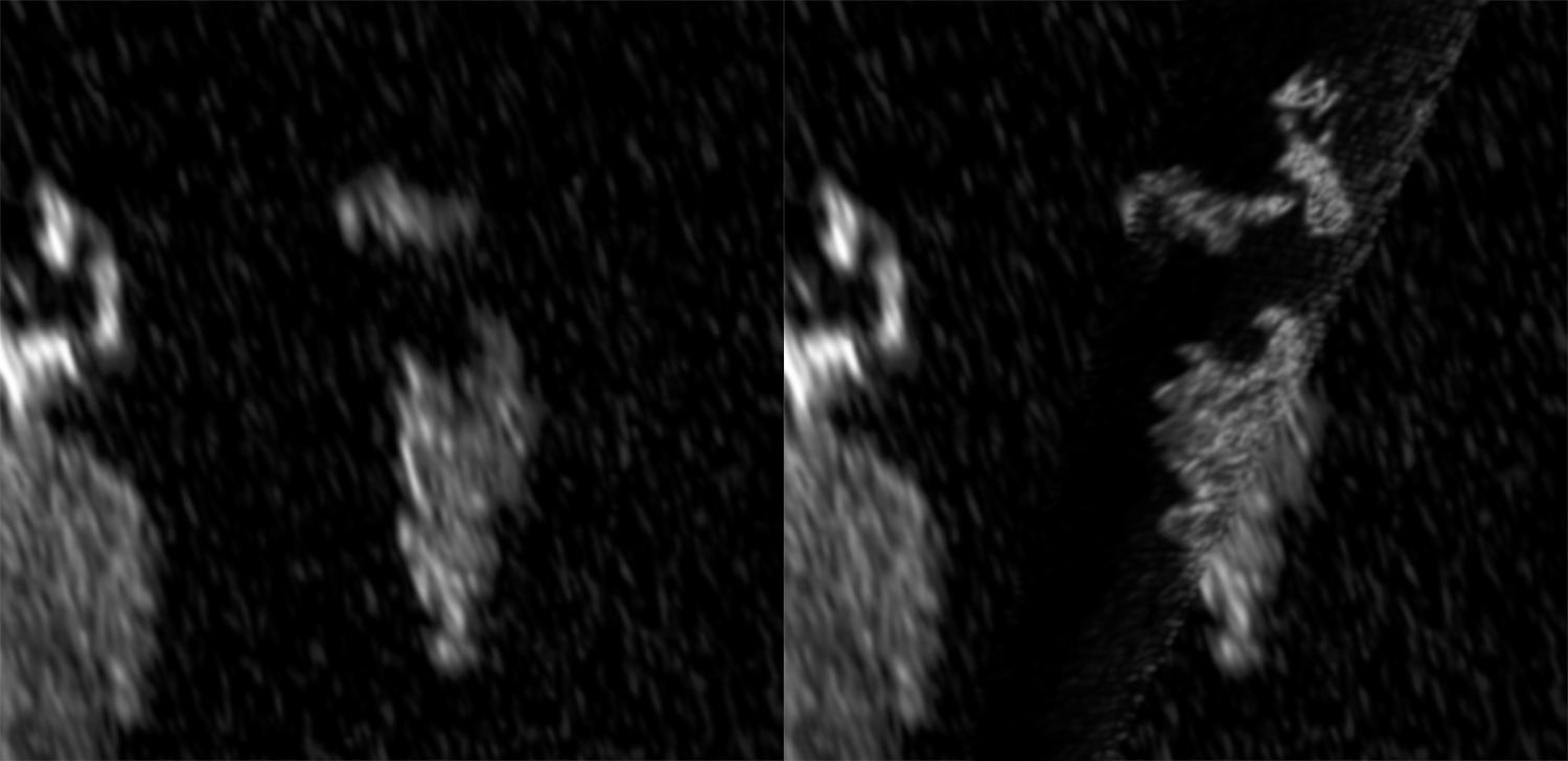 Original caption: Two Synthetic Aperture Radar (SAR) images from the radar experiment on NASA's Cassini spacecraft show that, between May 2013 and August 2014, a bright feature appeared in Kraken Mare, the largest hydrocarbon sea on Saturn's moon Titan. Researchers think the bright feature is likely representative of something on the hydrocarbon sea's surface, such as waves or floating debris. A similar feature appeared in Ligea Mare, another Titan sea, and was seen to evolve in appearance between 2013 and 2014 (see PIA18430). The image at left was taken on May 23, 2013 at an incidence angle of 56 degrees; the image at right was taken on August 21, 2014 at an incidence angle of 5 degrees. Incidence angle refers to the angle at which the radar beam strikes the surface.